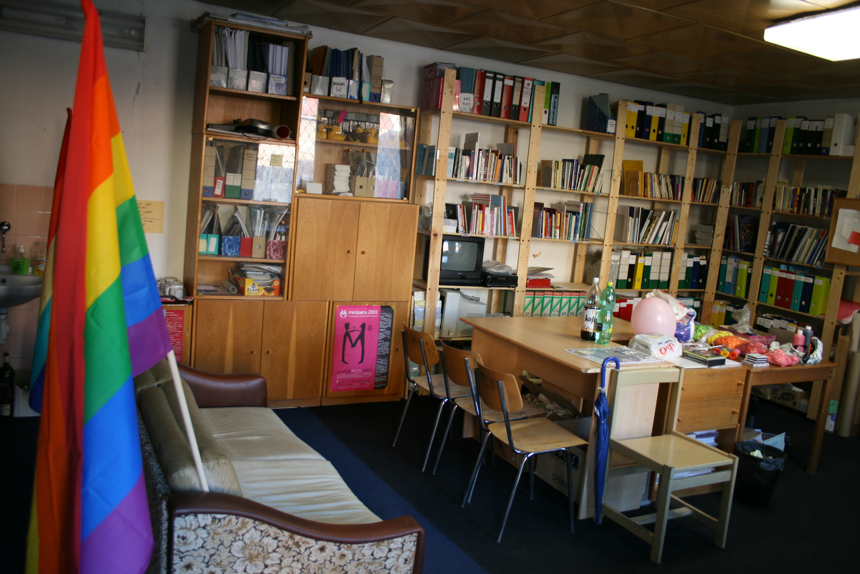 Office of non-profit organisation Stud Brno with its gay and lesbian library and archives.